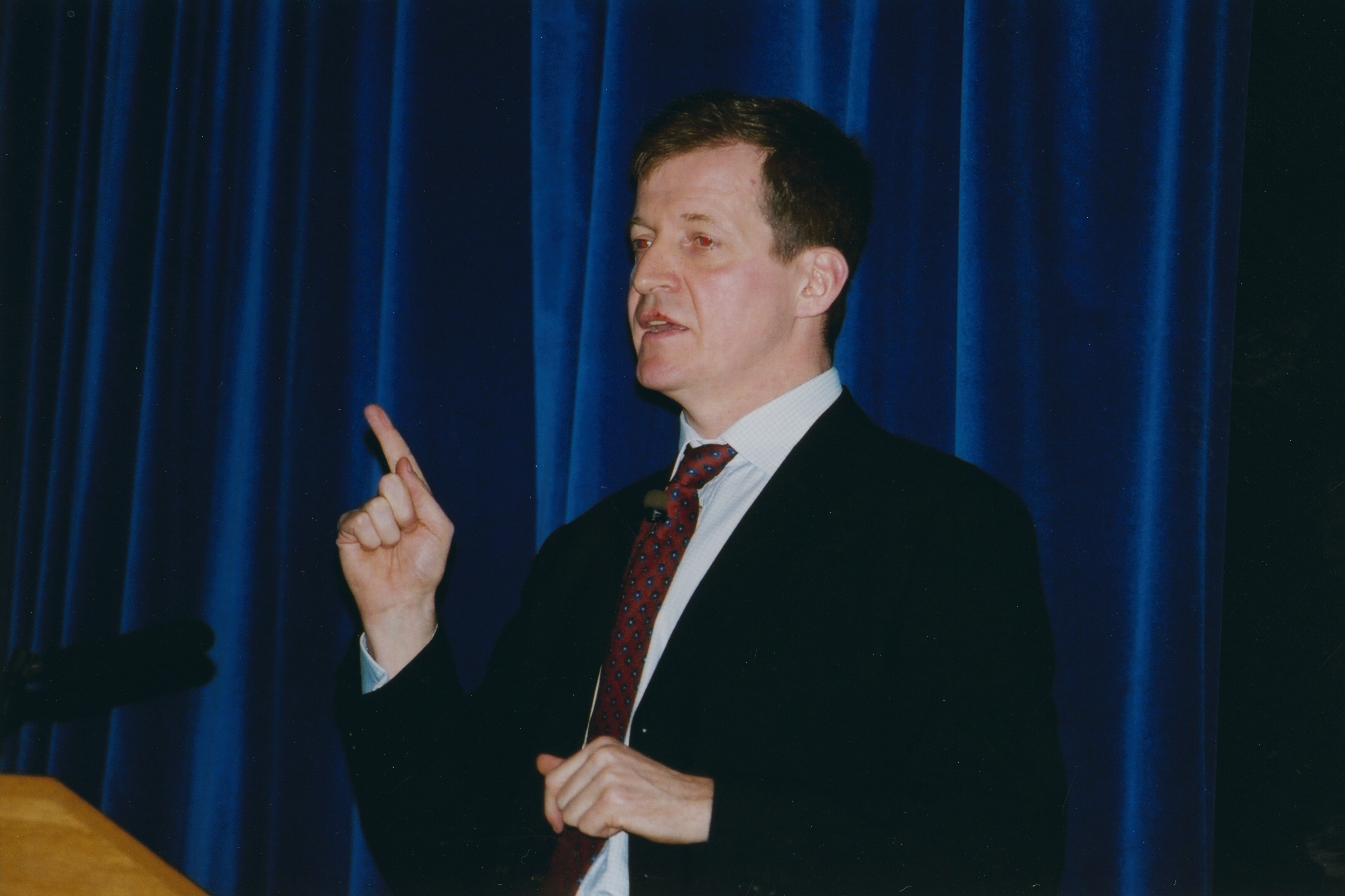 LSE Public lecture series, 'From Kennedy to Blair,' 7 July 2003 IMAGELIBRARY/874 Persistent URL